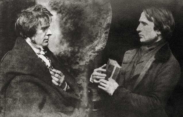 Composite photograph of David Octavius Hill (left) circa 1845, and Robert Adamson (right) circa 1845